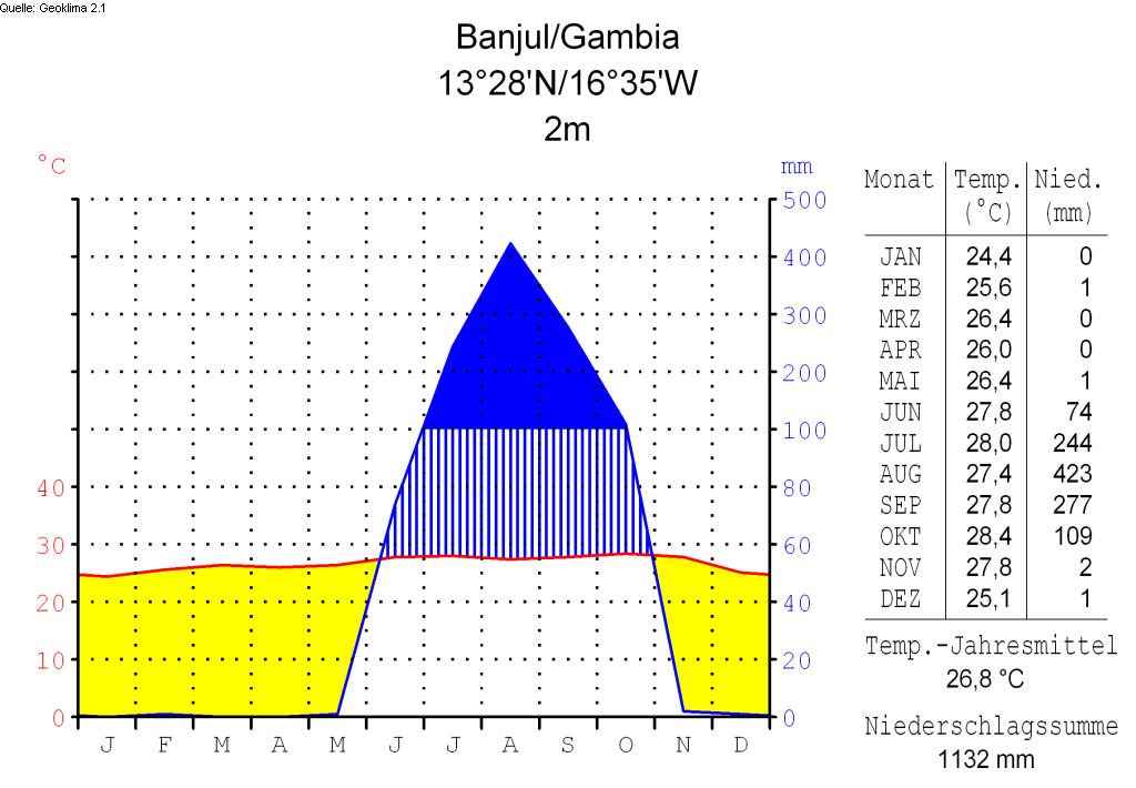 climate chart in the format by Walter and Lieth, metric, °Celsisus and millimeters, made with Geoklima 2.1